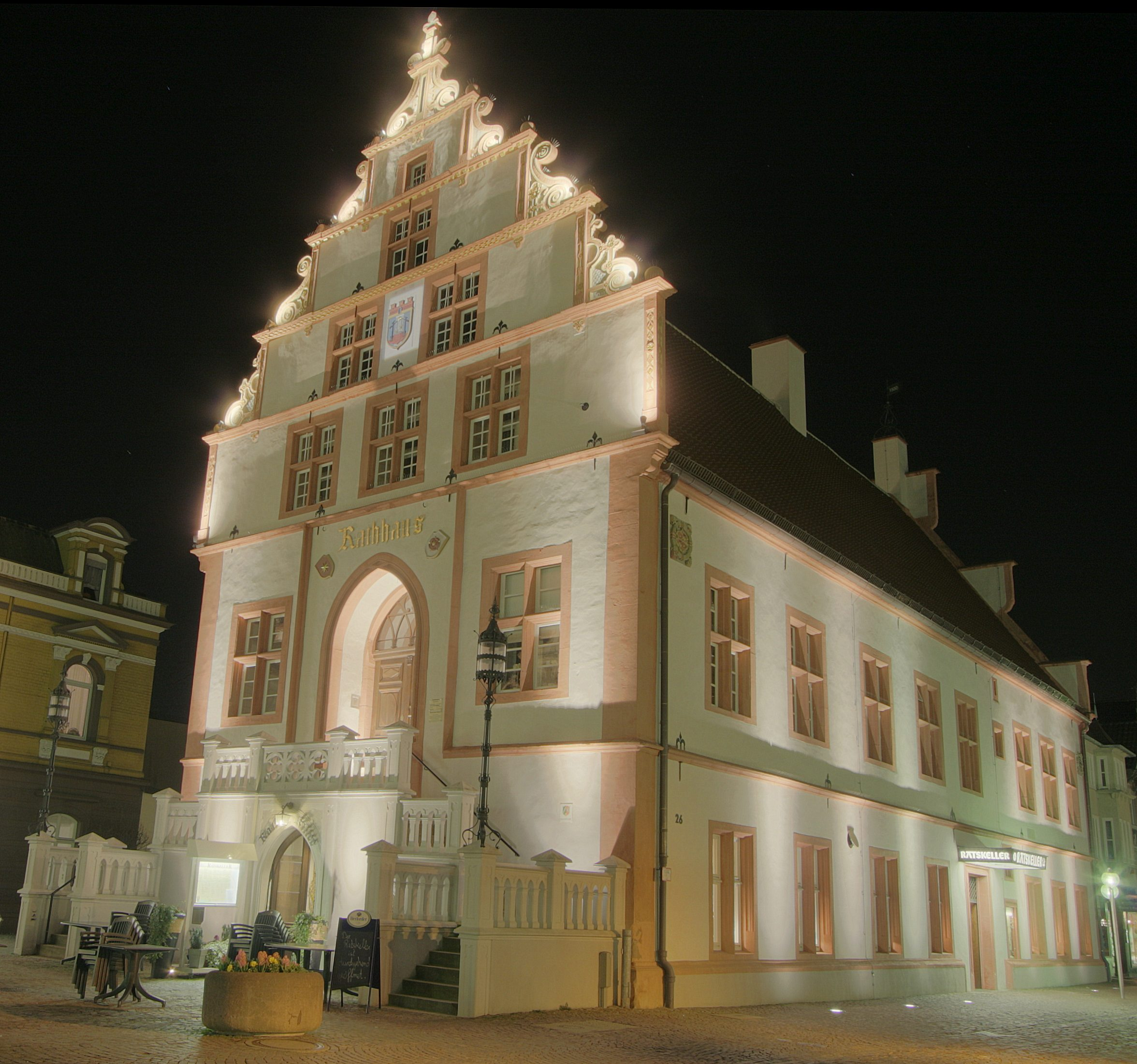 Historic town hall in Bad Salzuflen, Lippe District, North Rhine-Westphalia, Germany.